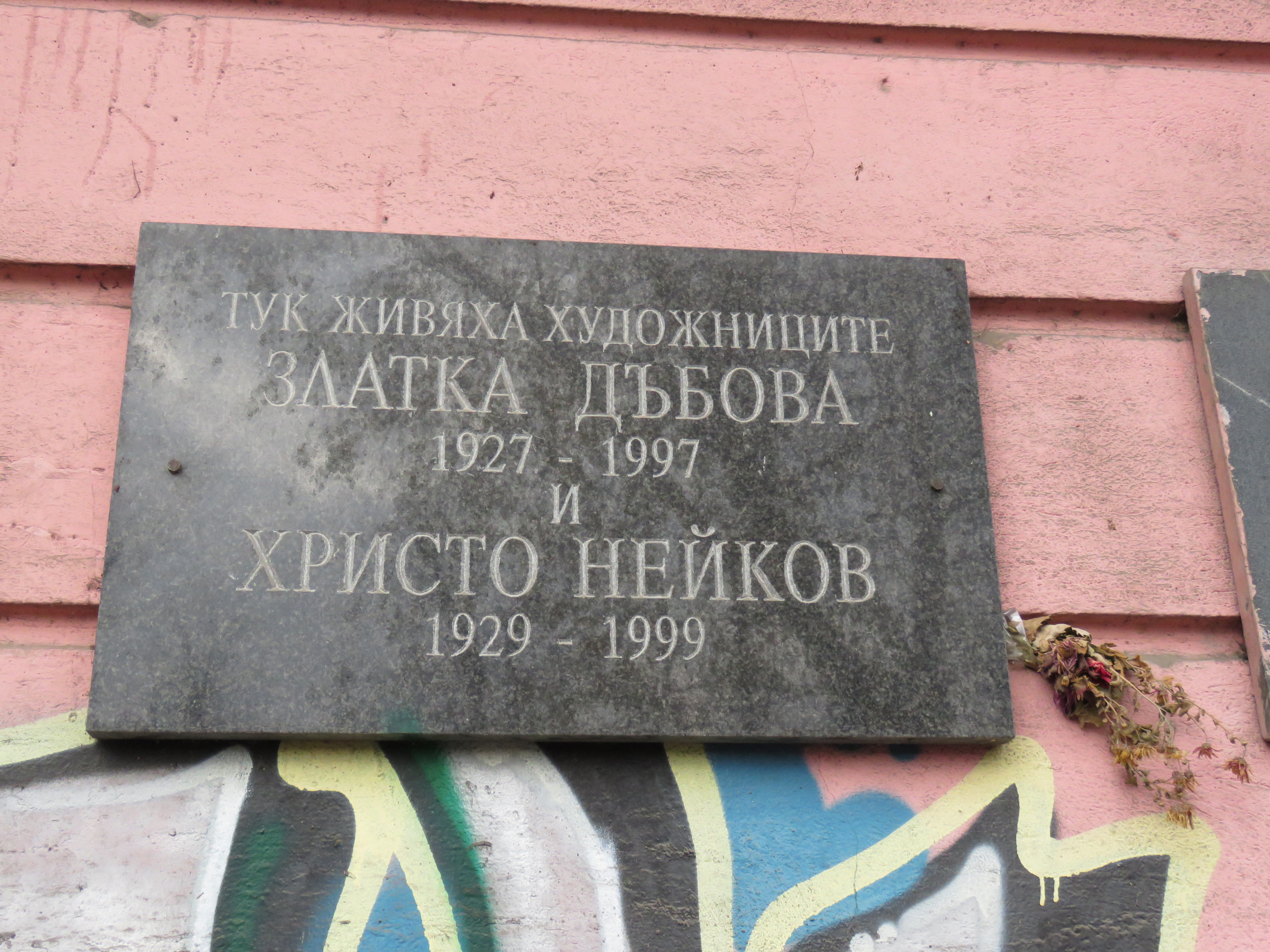 Plaque on the building where Zlatka Dabova and Hristo Neykov, Bulgarian artists lived in Sofia